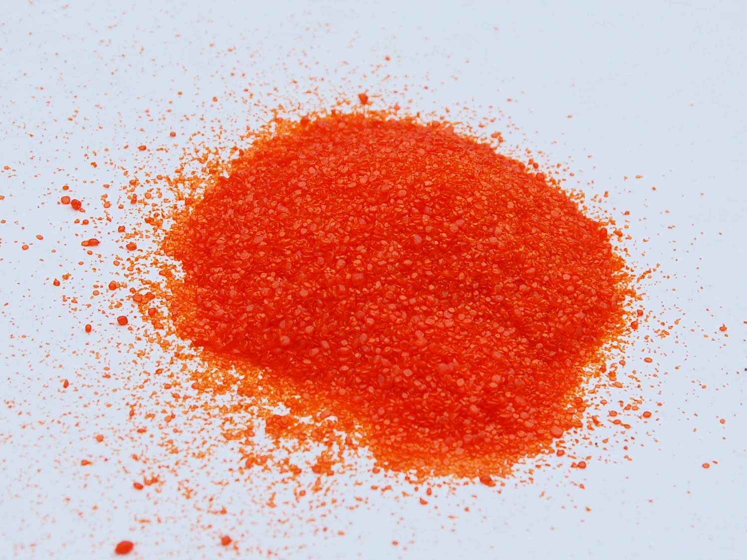 Photo of solid ammonium dichromate, (NH4)2Cr2O7